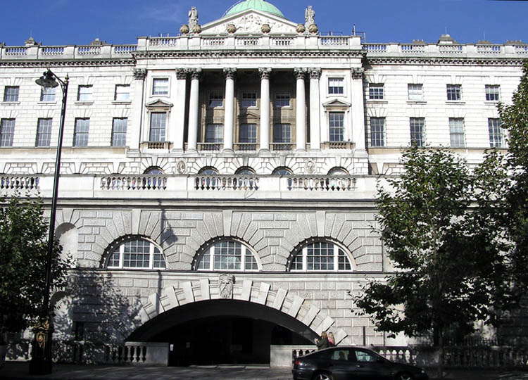 Somerset House, London. Taken by Adrian Pingstone in November 2004 and released to the public domain.